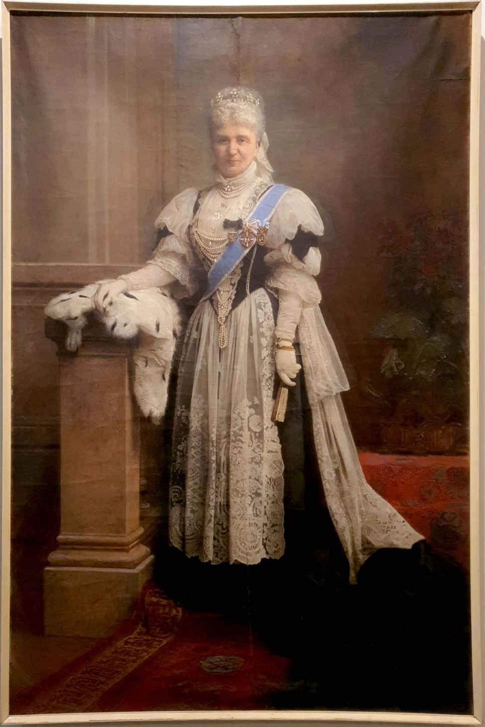 Ida Ferenczy de Vecseszék (1839–1928), maid of honour to Empress and Queen Elisabeth of Austria-Hungary in traditional Hungarian court gown.